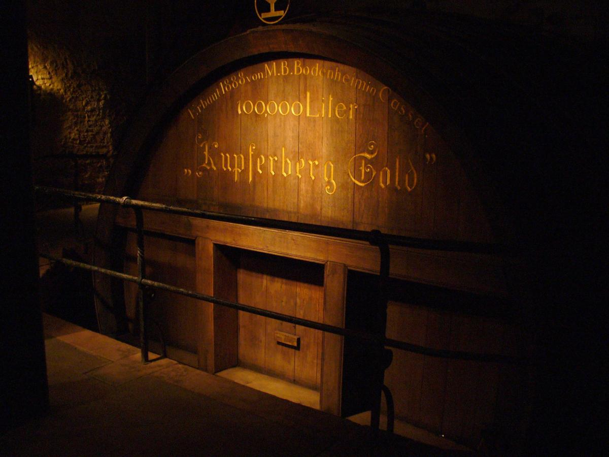 large Cuvee barrel, Kupferberg cellars (producer of sparkling wine Kupferberg Gold), Mainz, Germany